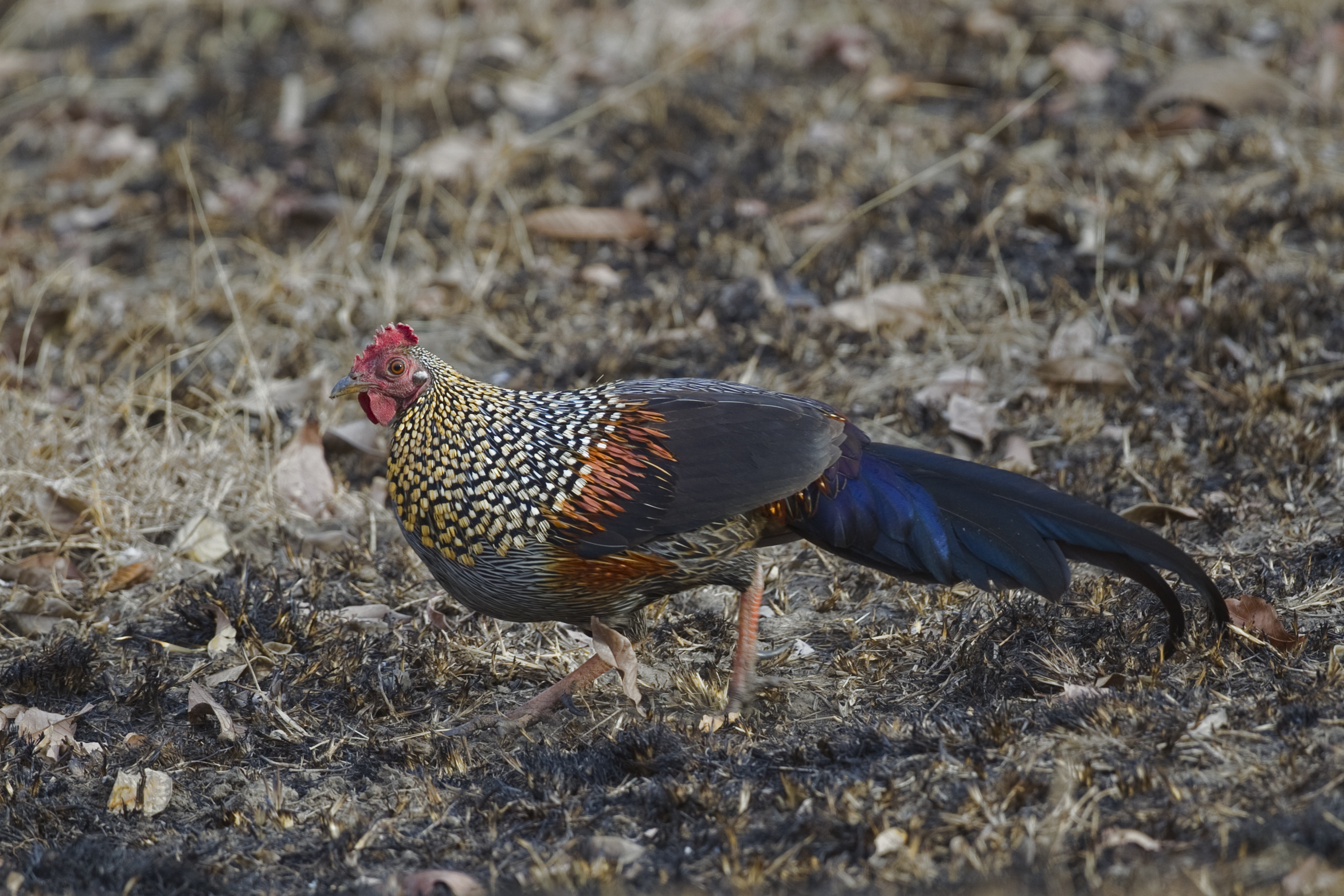 Grey junglefowl male in Bandipur National Park